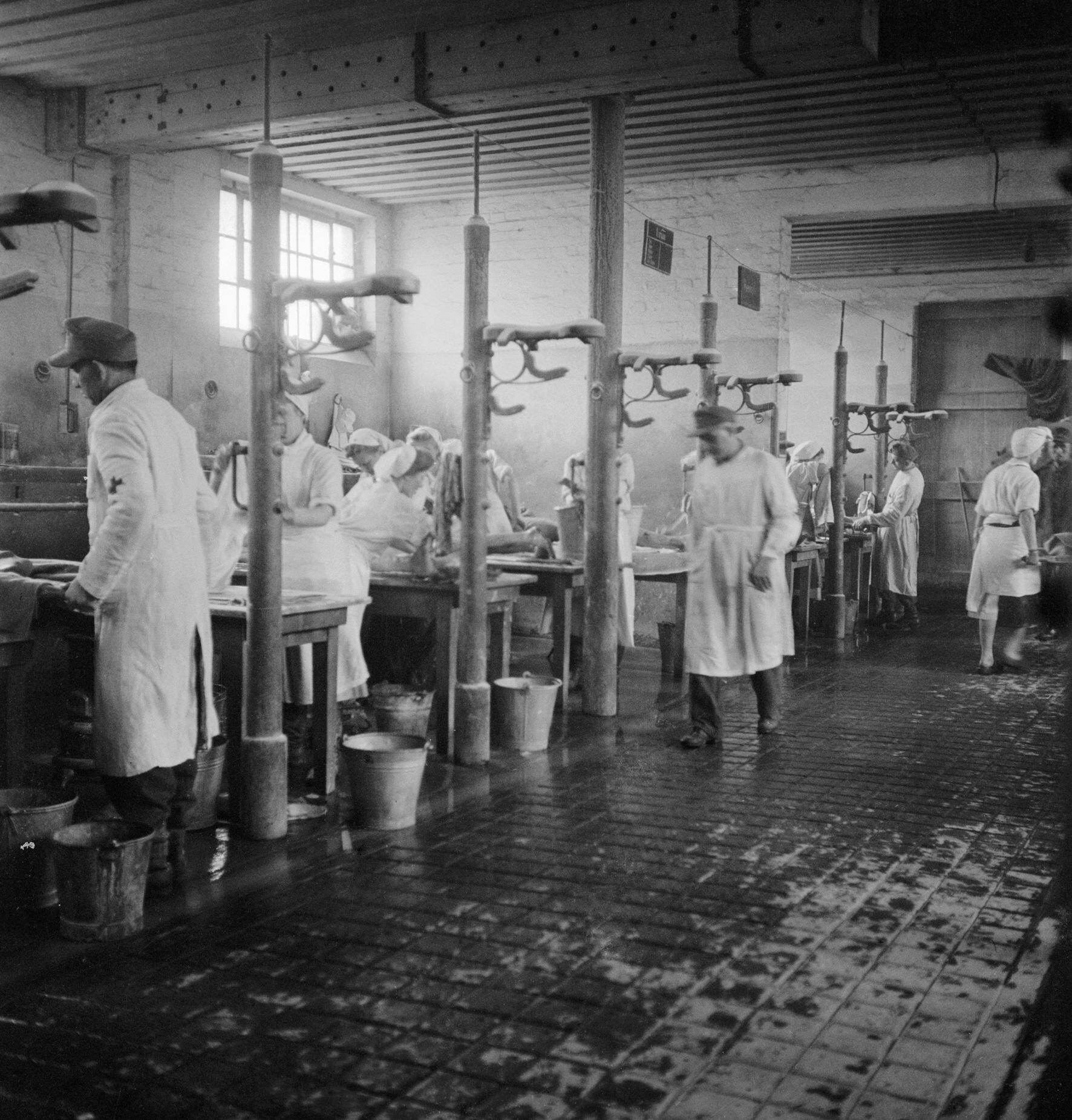 Liberation of Belsen Concentration Camp April 1945: Scene inside the cleansing station, nicknamed the "Human Laundry", which was housed in a former stable for cavalry horses at the newly established hospital for Belsen inmates in Hohne Military Barracks. The photograph shows some of the 60 tables, each staffed by two German doctors and two German nurses, at which the sick were washed and deloused.